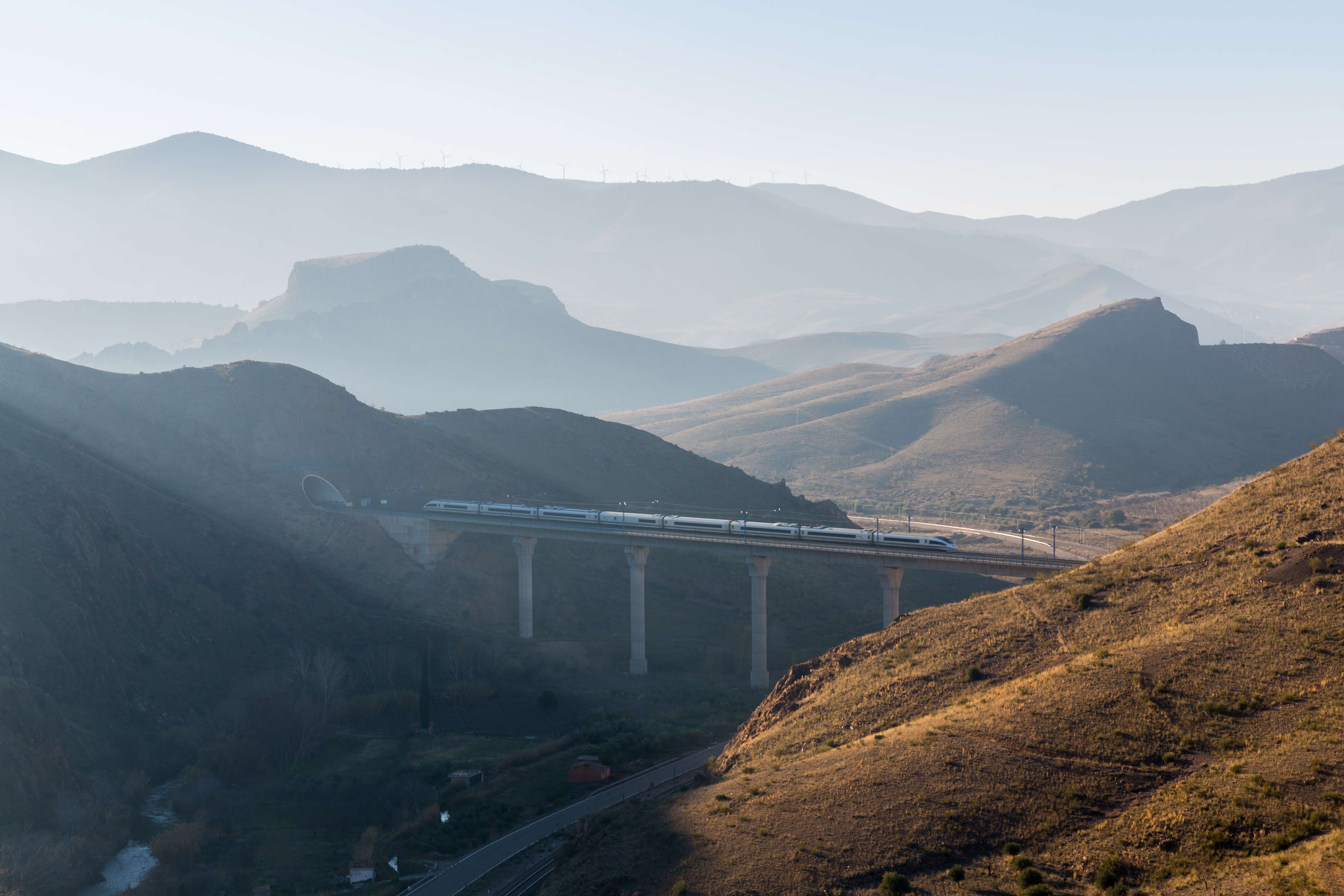 Villanueva del Jalón, Zaragoza, Spain